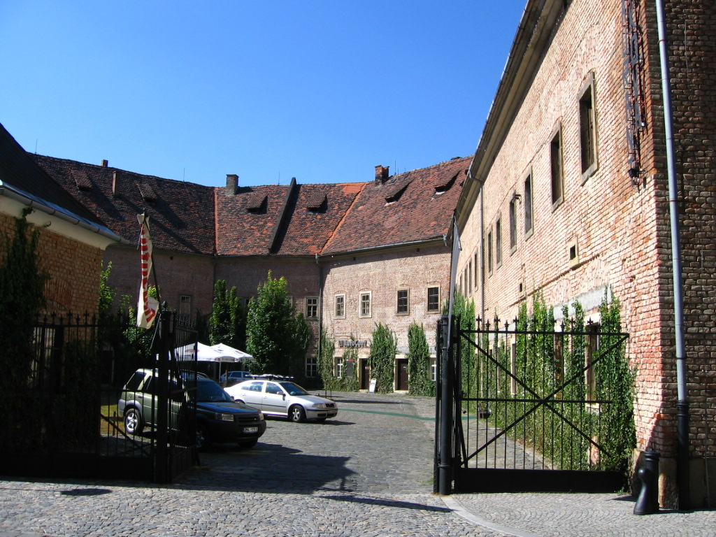 The former Army Bakery in Olomouc, Czech Republic